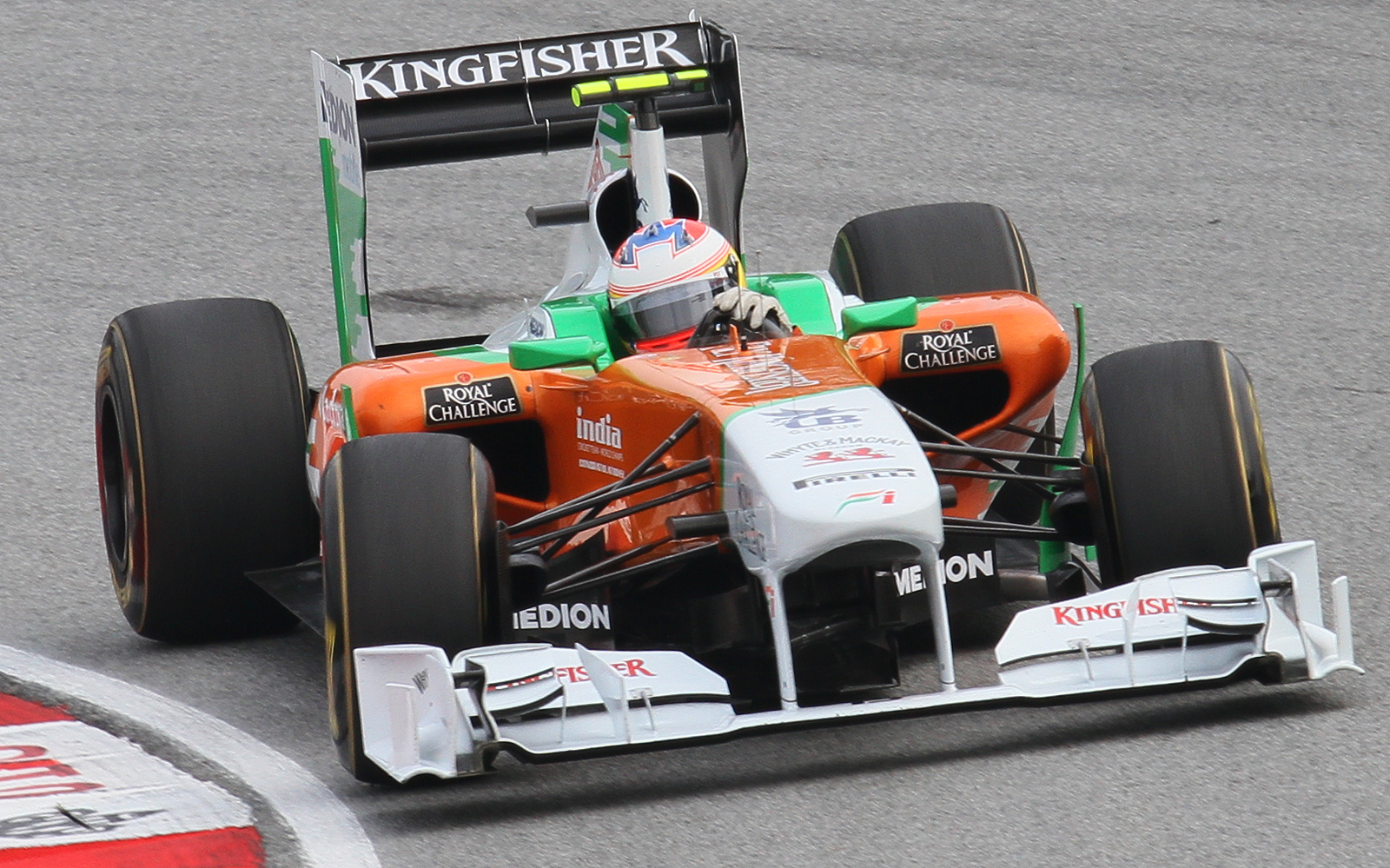 Formula One 2011 Rd.2 Malaysian GP: Paul di Resta (Force India) during the qualify session on Saturday.